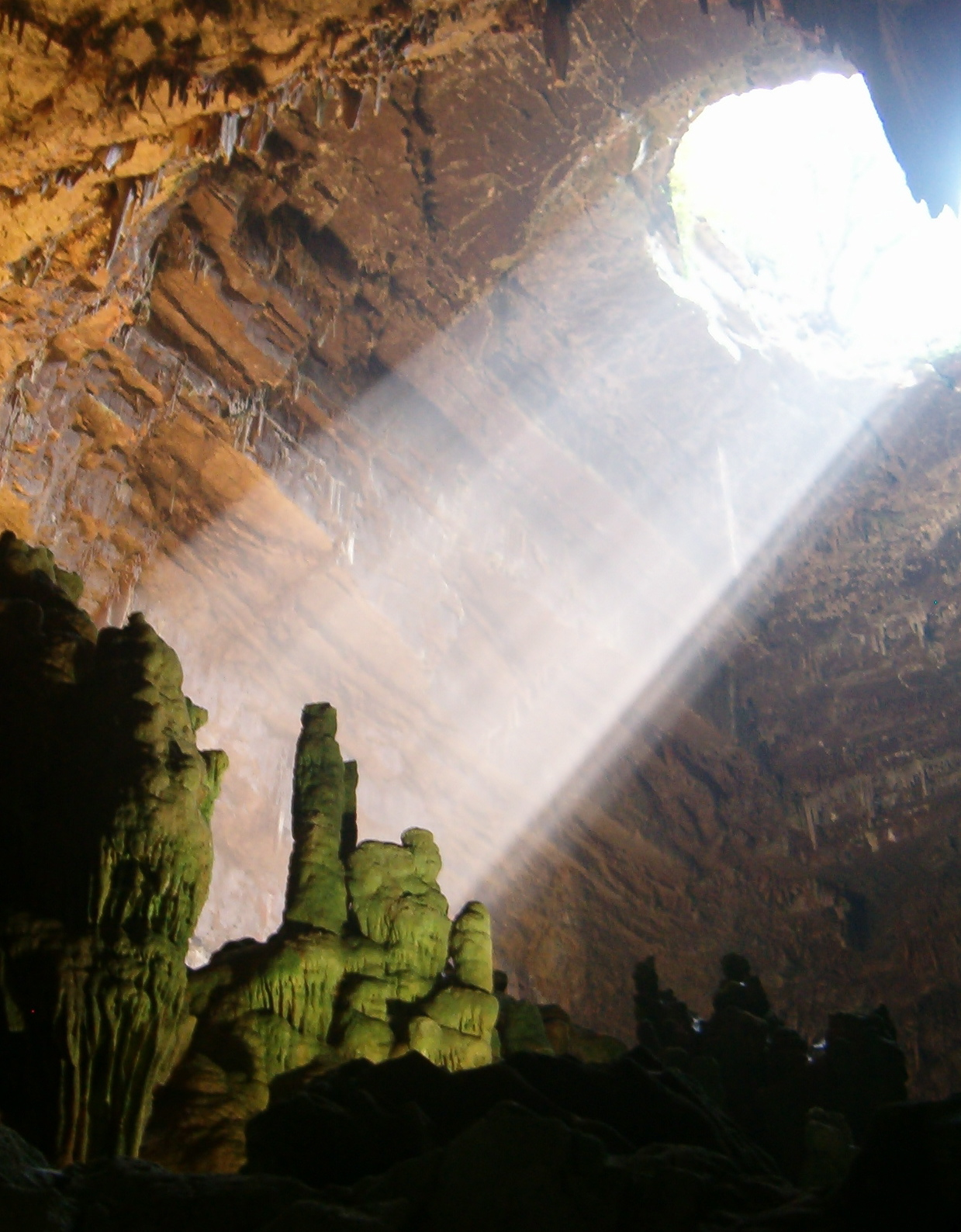 Castellana grottos in Castellana Grotte, Province of Bari, Apulia, Italy.